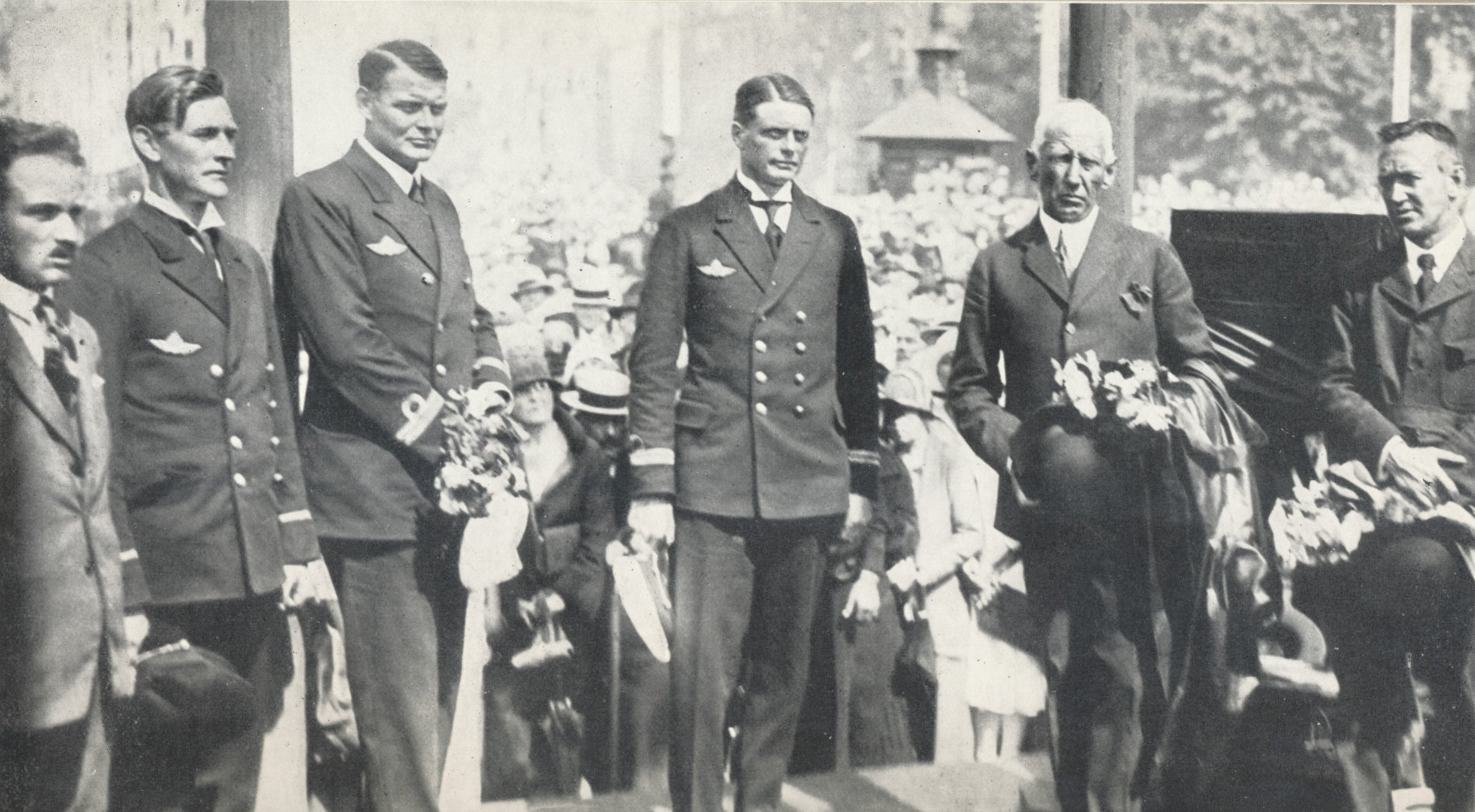 Reception after returning from 87' 44'. L-R: Feucht, Omdal, Riiser-Larsen, Dietrichson, Amundsen, Ellsworth